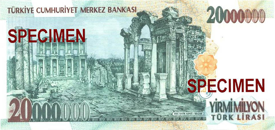 Twenty Million Turkish Lira banknote, replaced in 2005 by a similar design banknote valued at 20 New Turkish Lira (20 YTL).